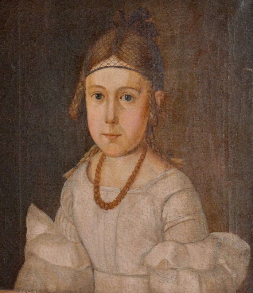 Henrik Ibsen's sister Hedvig Ibsen (1831–1920). The portrait was given as a gift to the Ibsen Collection by estate owner Herman Paus in 1930/31Norsk bokmål: Henrik Ibsens søster Hedvig Ibsen (1831–1920). Maleriet ble gitt i gave til Ibsensamlingen av godseier Herman Paus i 1930/31